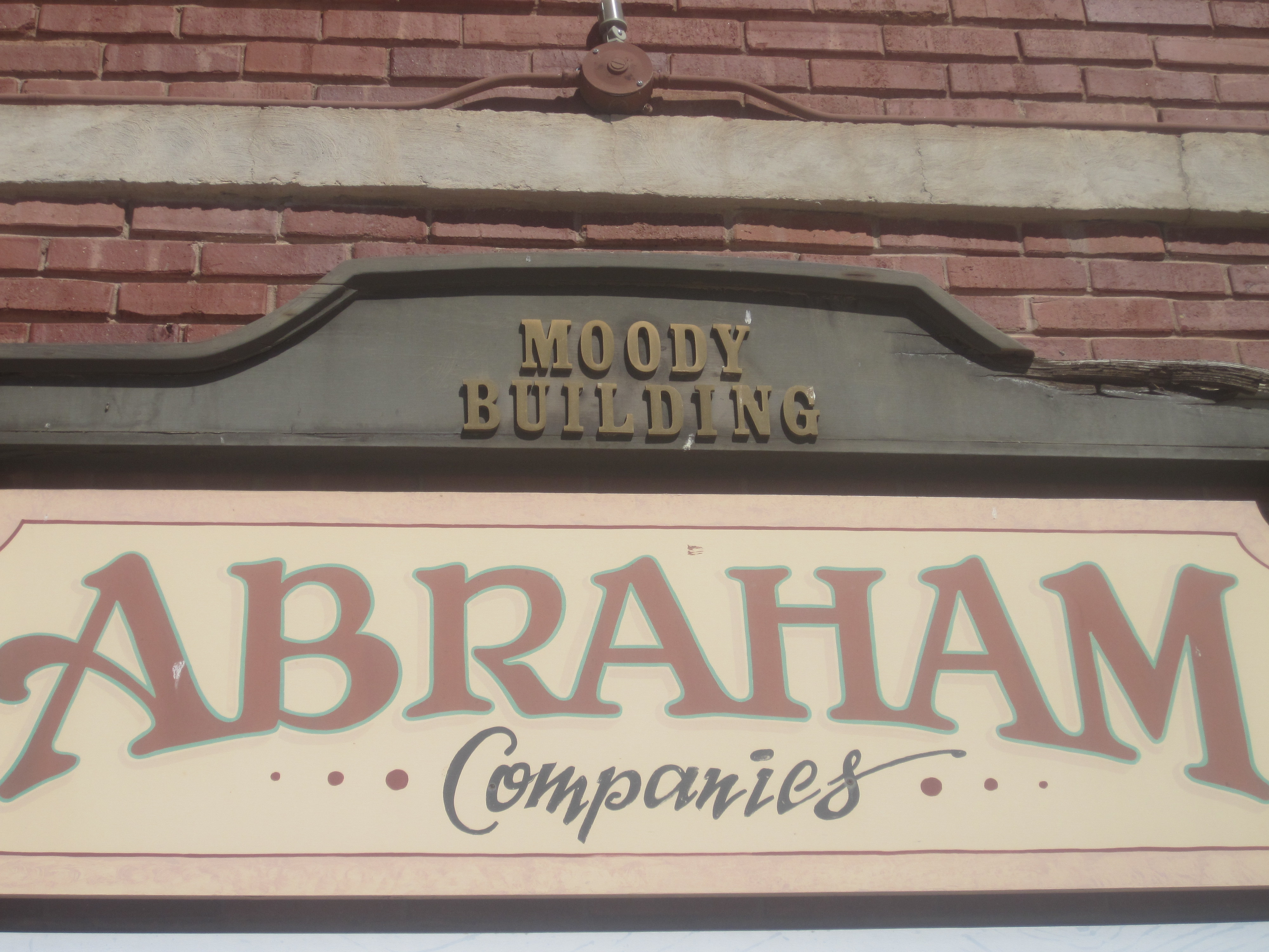 I took photo with Canon camera in Canadian, TX.